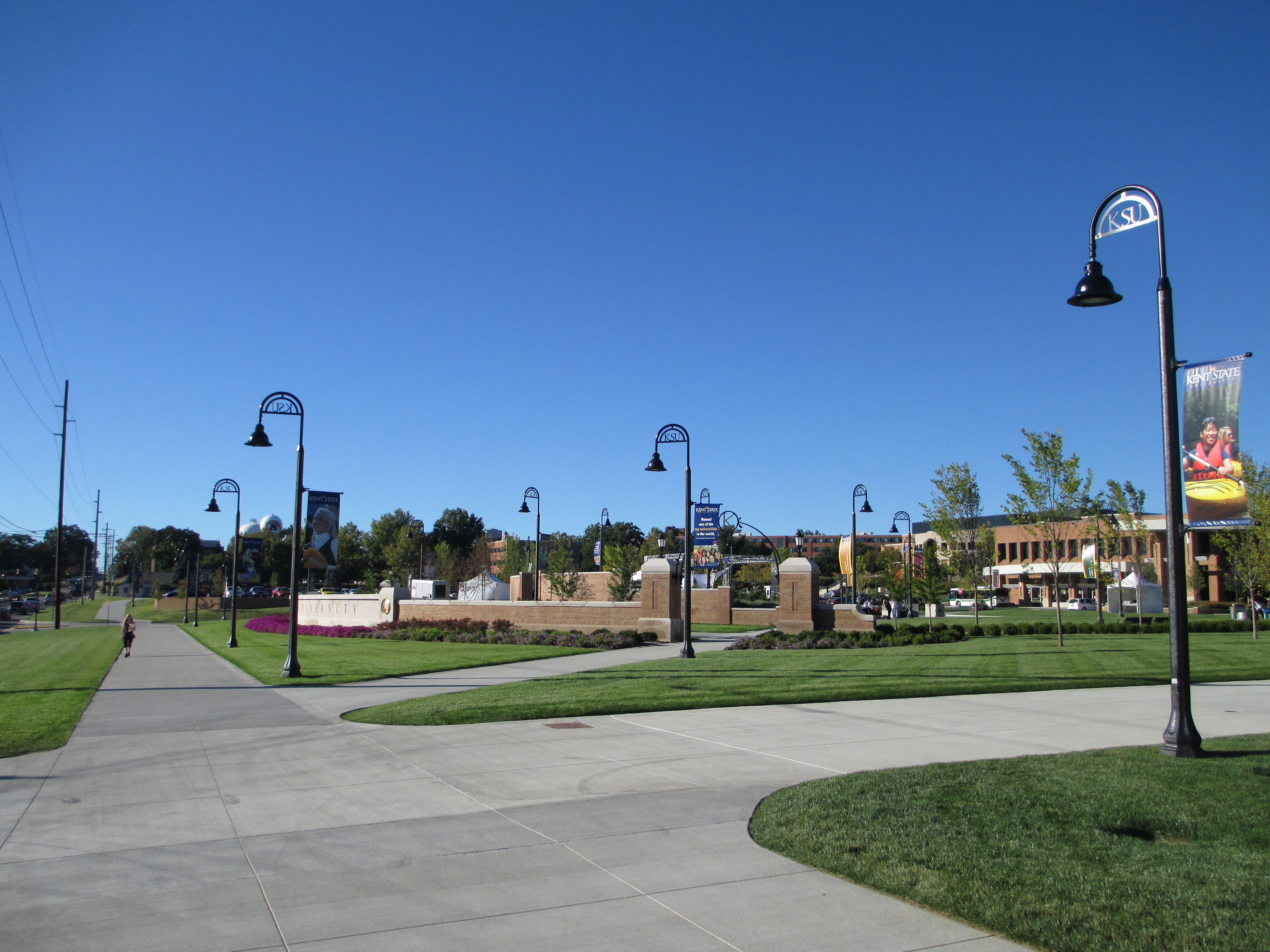 View of the site of Memorial Stadium in Kent, Ohio on the campus of Kent State University looking northeast. The stadium was torn down in 1968.